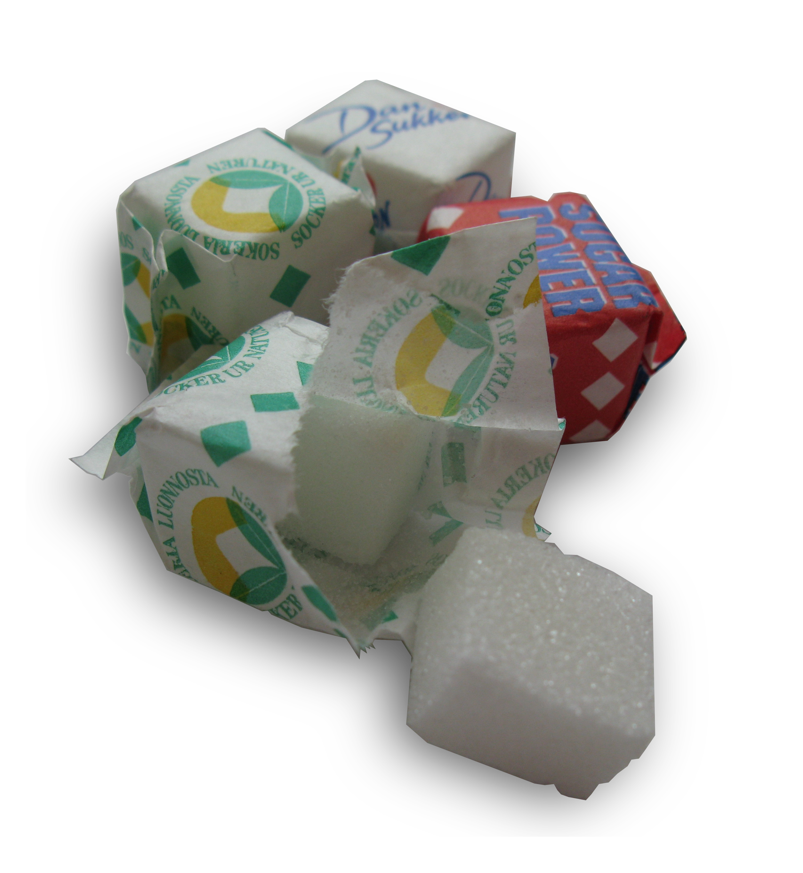 White sugar cubes in double packages, one of those is open.